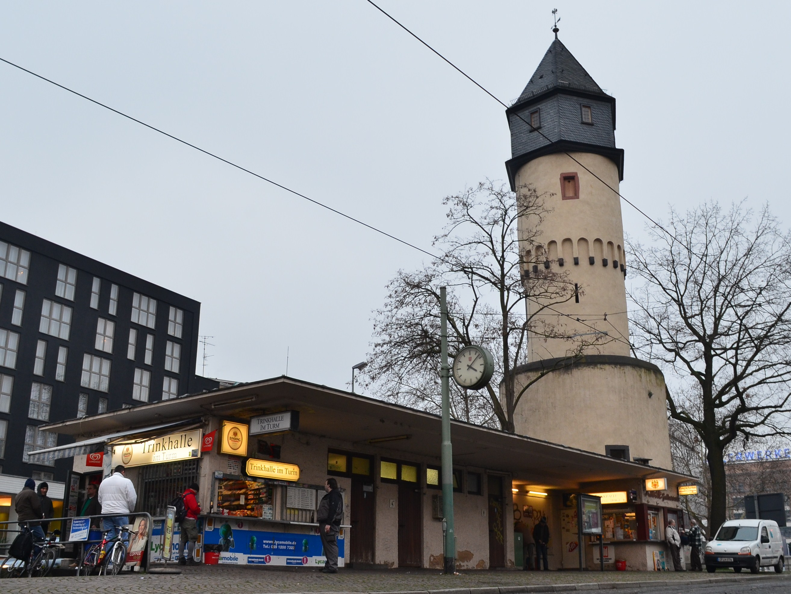 Galluswarte in Frankfurt am Main